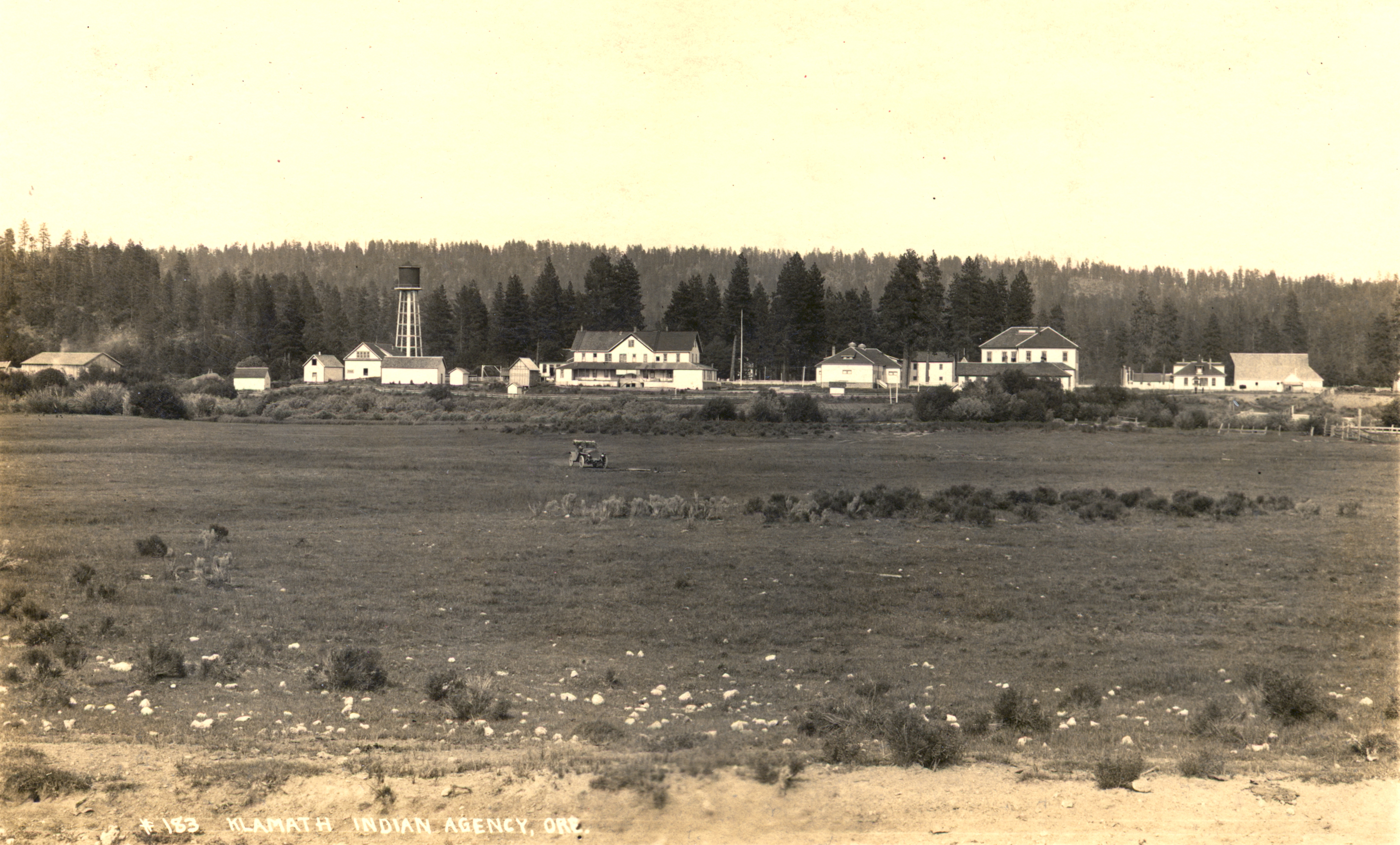 Original Collection: Gerald W. Williams Collection You can find this image by searching for the item number by clicking here. Want more? You can find more digital resources online. We're happy for you to share this digital image within the spirit of The Commons; however, certain restrictions on high quality reproductions of the original physical version may apply. To read more about what “no known restrictions” means, please visit the Special Collections & Archives website, or contact staff at the OSU Special Collections & Archives Research Center for details.